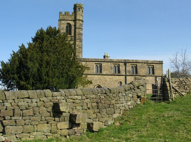 St John The Baptist's parish church, Dethick, Derbyshire, seen from the south. The three steps in the foreground are a stile over the dry stone wall of the churchyard.